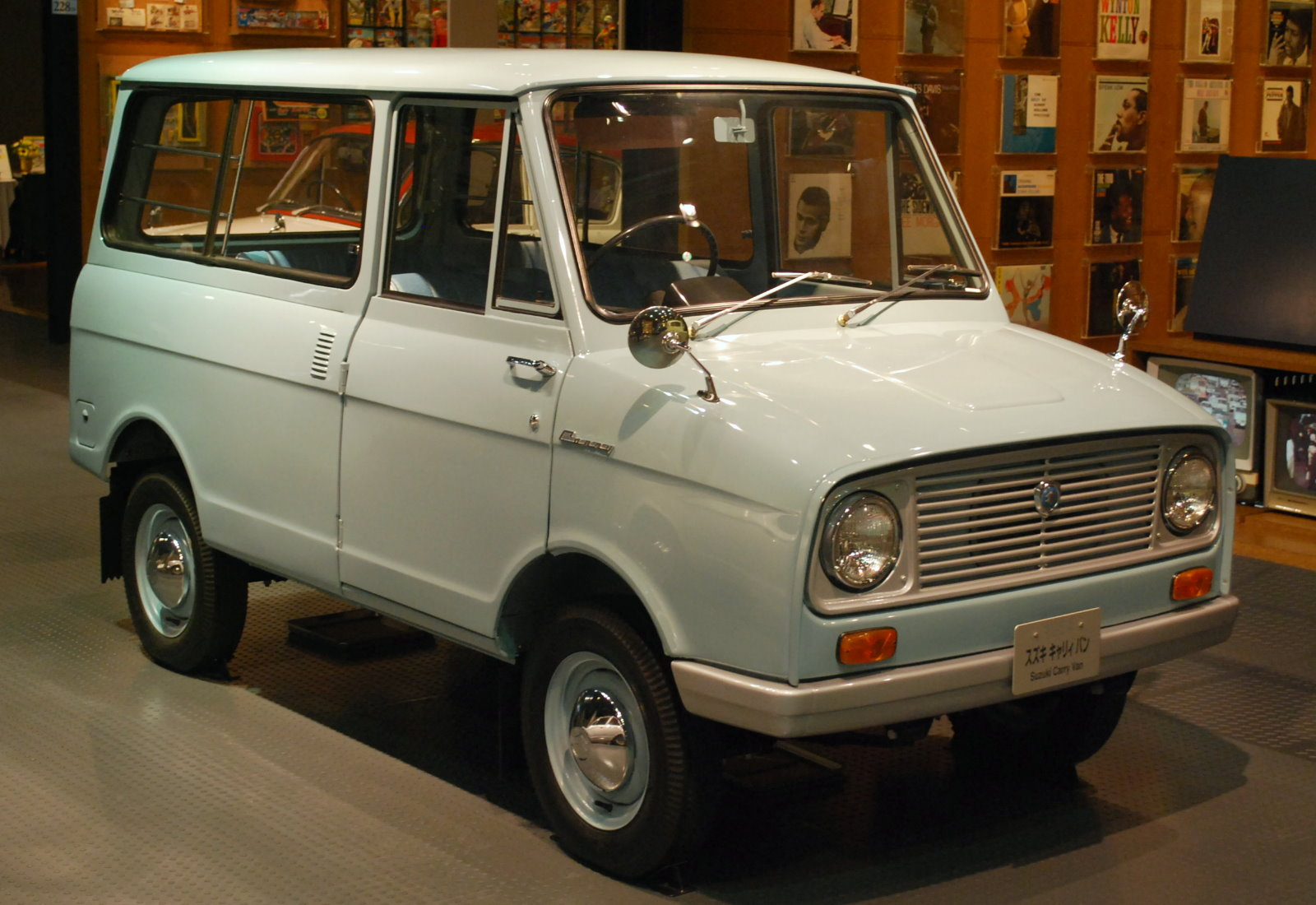 1st generation Suzuki Carry van